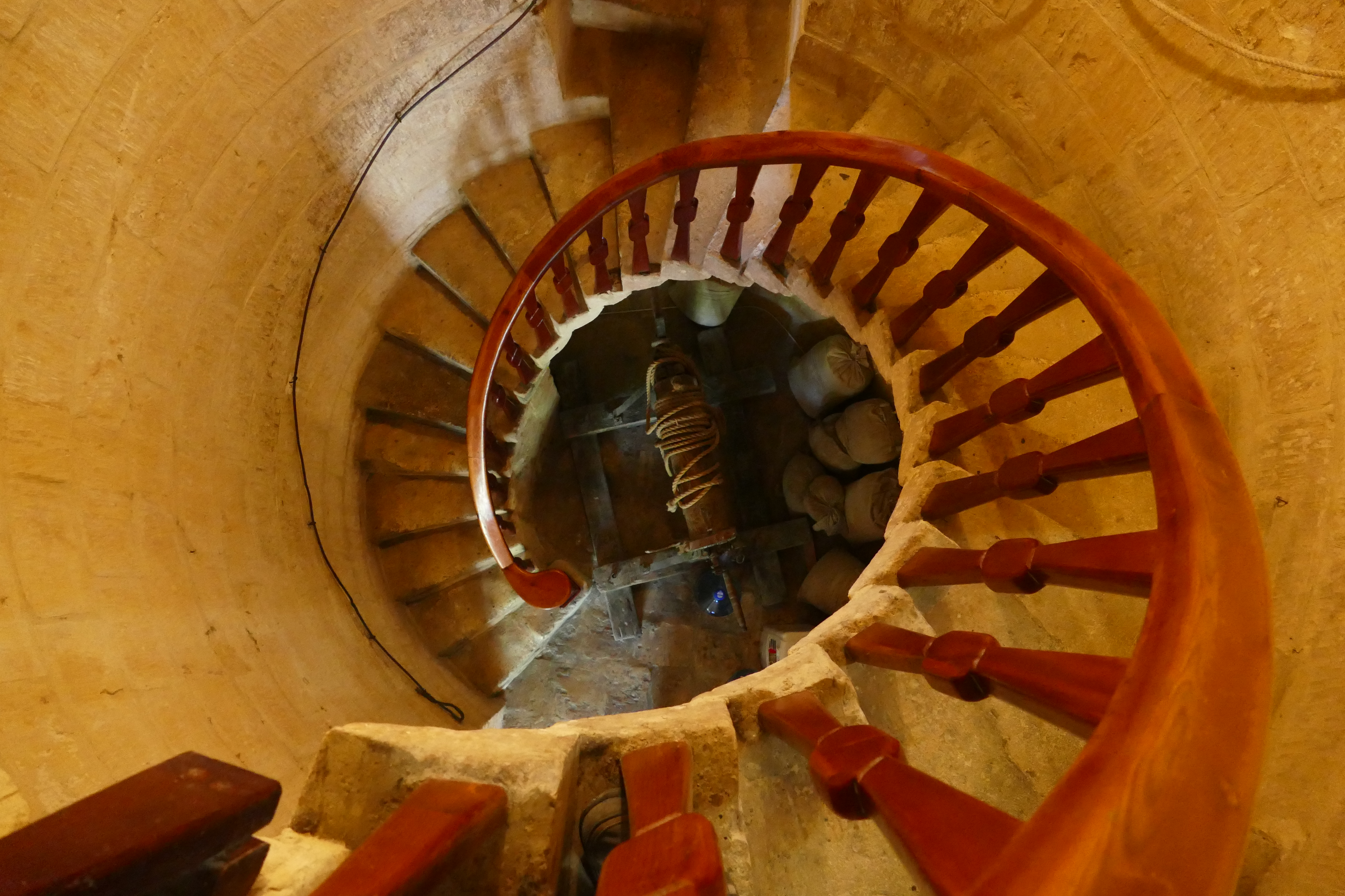 Ta' Kola Windmill This media is about Maltese cultural property with inventory number 00005.